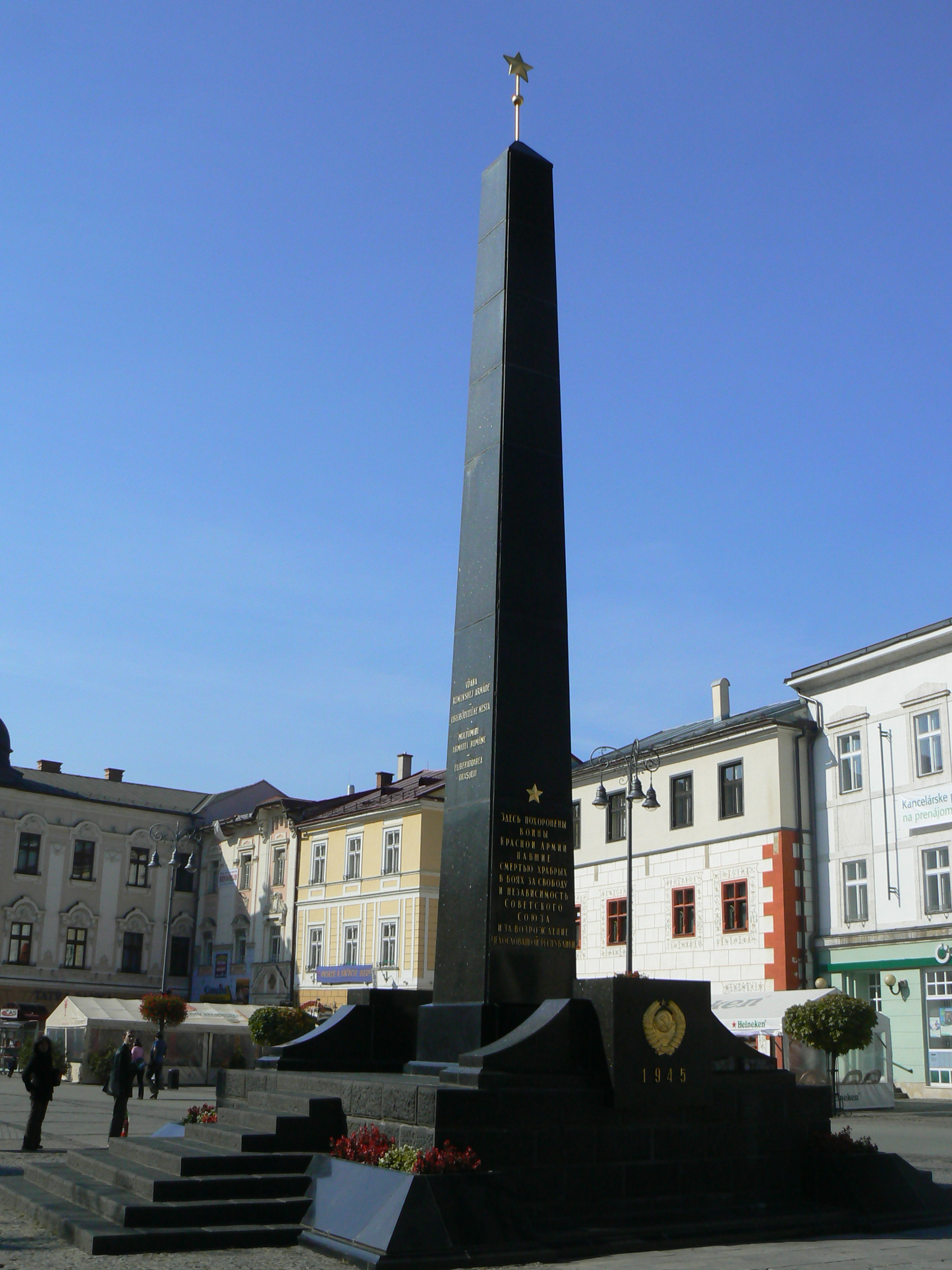 Monument to the Soviet Red Army in the centre of Banska Bystrica, Slovakia